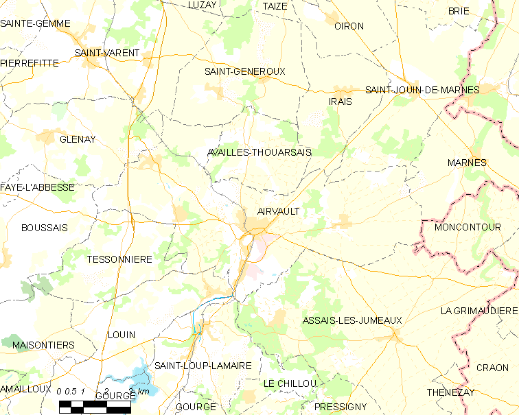 Map of French municipality Airvault